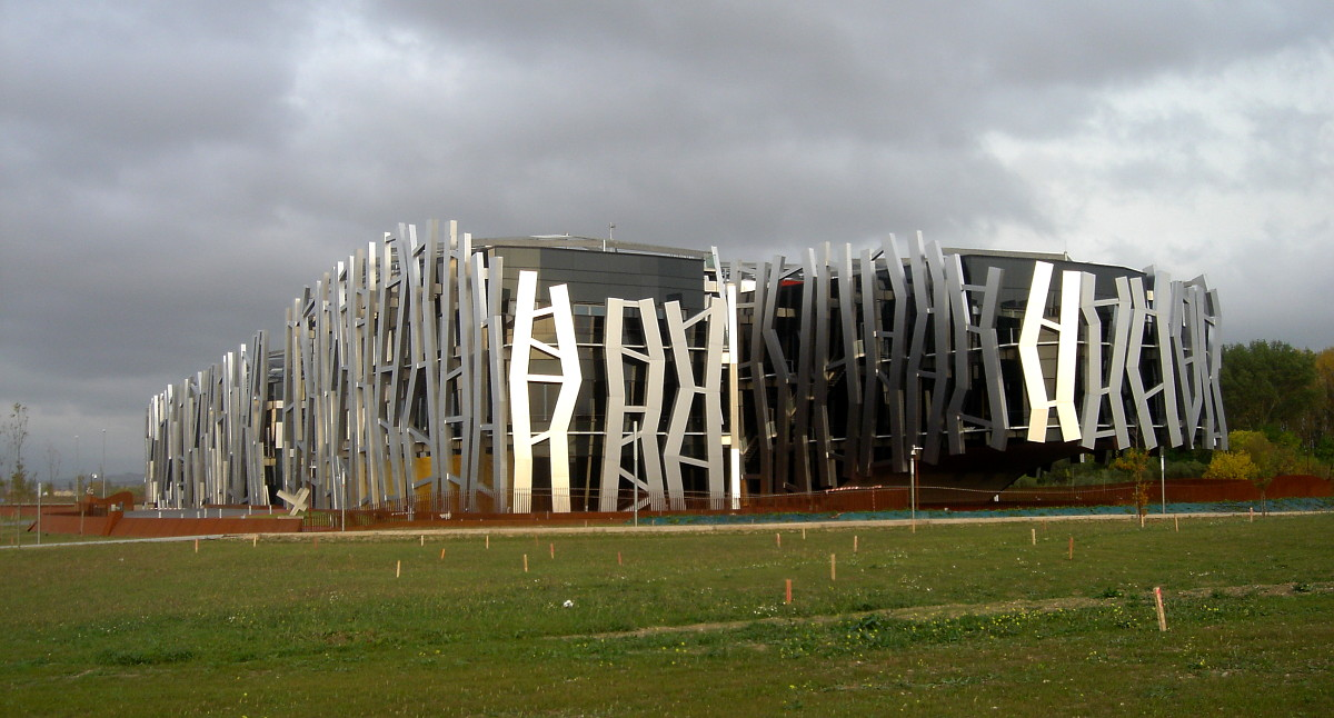 Main offices of Caja Vital Kutxa savings bank (Vitoria-Gasteiz, Basque Country, Spain)